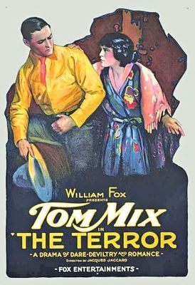 Movie poster for the American western film The Terror (1920).